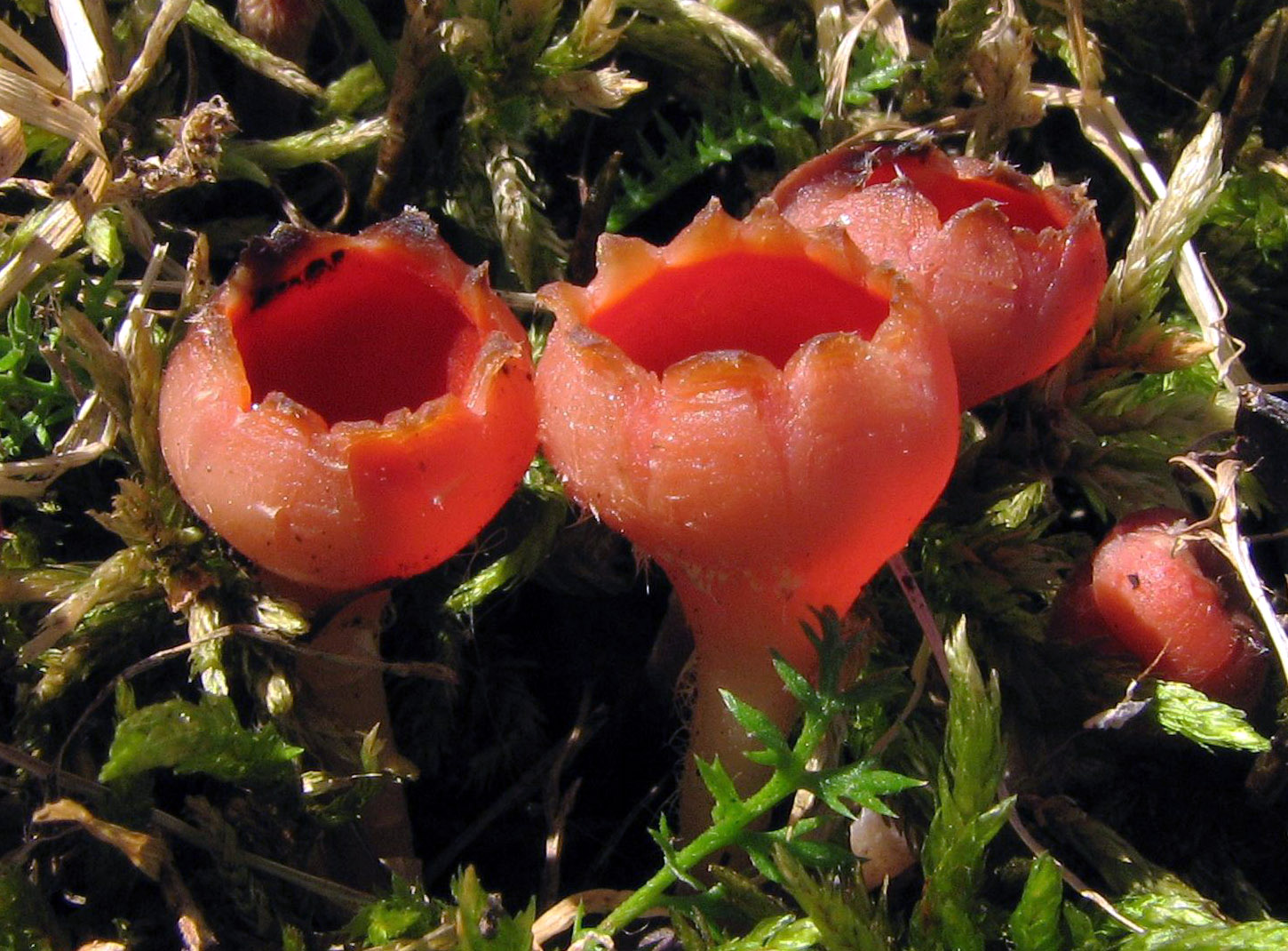 Microstoma protractum (Fries) Kanouse